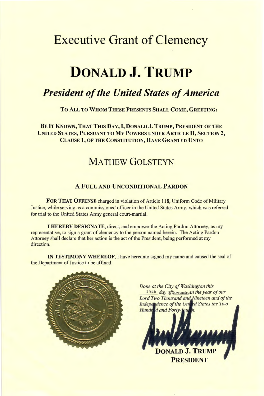 This is the official pardon of Mathew Golsteyn, charged with murder by general court-martial, by President Donald Trump, as given on 15 November 2019. Cropped from the original PDF.